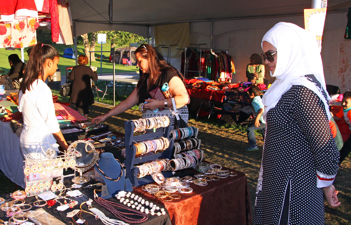 Inside the Bangladesh Pavilion at the Heritage Festival in Edmonton, Alberta, Canada, taken August 1, 2015 by Andy Strohkirch